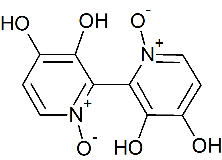 Structure of Orellanine, amine-oxide tautormer, the more stable form of orellanine